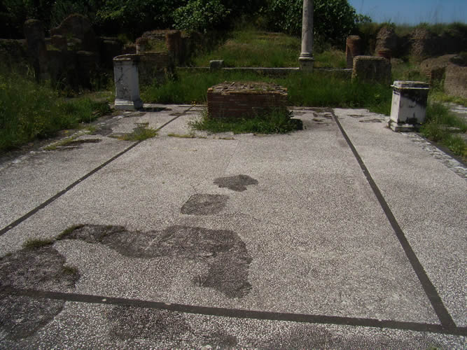 Serapis temple in Otia